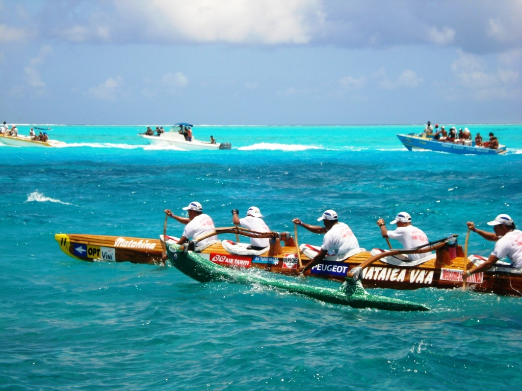 Hawaiki Nui Va'a is an outrigger canoe race that happens once a year in French Polynesia. It takes place over 3 days connecting the islands of Huahine, Raiatea, Taha'a and Bora Bora in a hommage to ancient times. It is a huge party in these islands with Bora Bora being the final leg and the big finale at Matira Beach! This year 83 canoes seating teams of 6 paddlers competed to win this prestigious race with a couple of teams from Hawaii and New Zealand as well as New Caledonia. Tahiti's Shell Va'a team won for the 3rd year in a row. They are proving to be pretty unbeatable at the moment as they also won Molokai in Hawaii for the second year in row earlier this month. At Hotel Bora Bora, we are the last point before Matira Bay and the arrival at the public beach so we had staff drumming at the point to encourage the paddlers to the end and a big tahititan oven for all our guests on the beach. You will notice from these pictures that the arrival side of the point was a beautiful blue sky whereas the other side was very grey and cloudy making for a pretty dramatic setting!